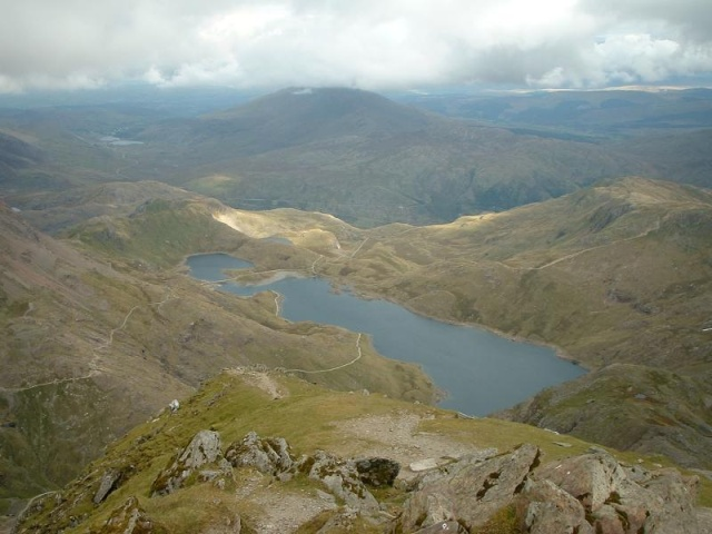 View from the top of Snowdon (larger version) taken by